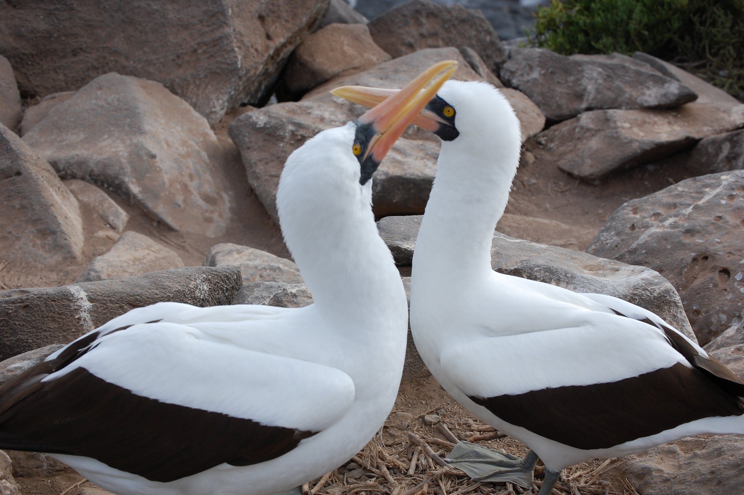 A pair of Nazca boobies in a mating dance. Ecuador, Galapagos Islands.